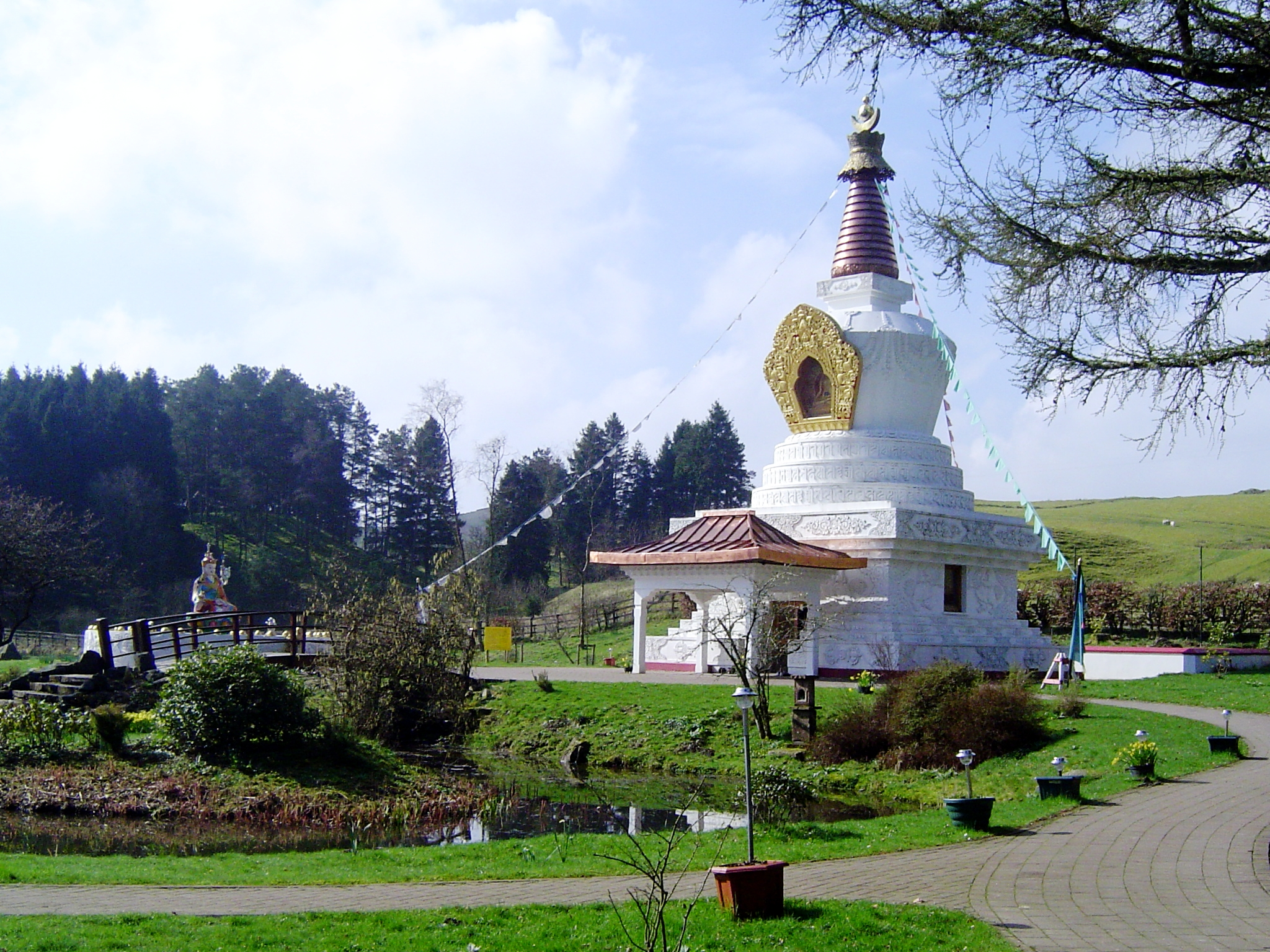 Main Stupa at Samye Ling, prior to completion of prayer wheel house (wrecked by road accident December 2005). Taken by Robert Matthews April 2005